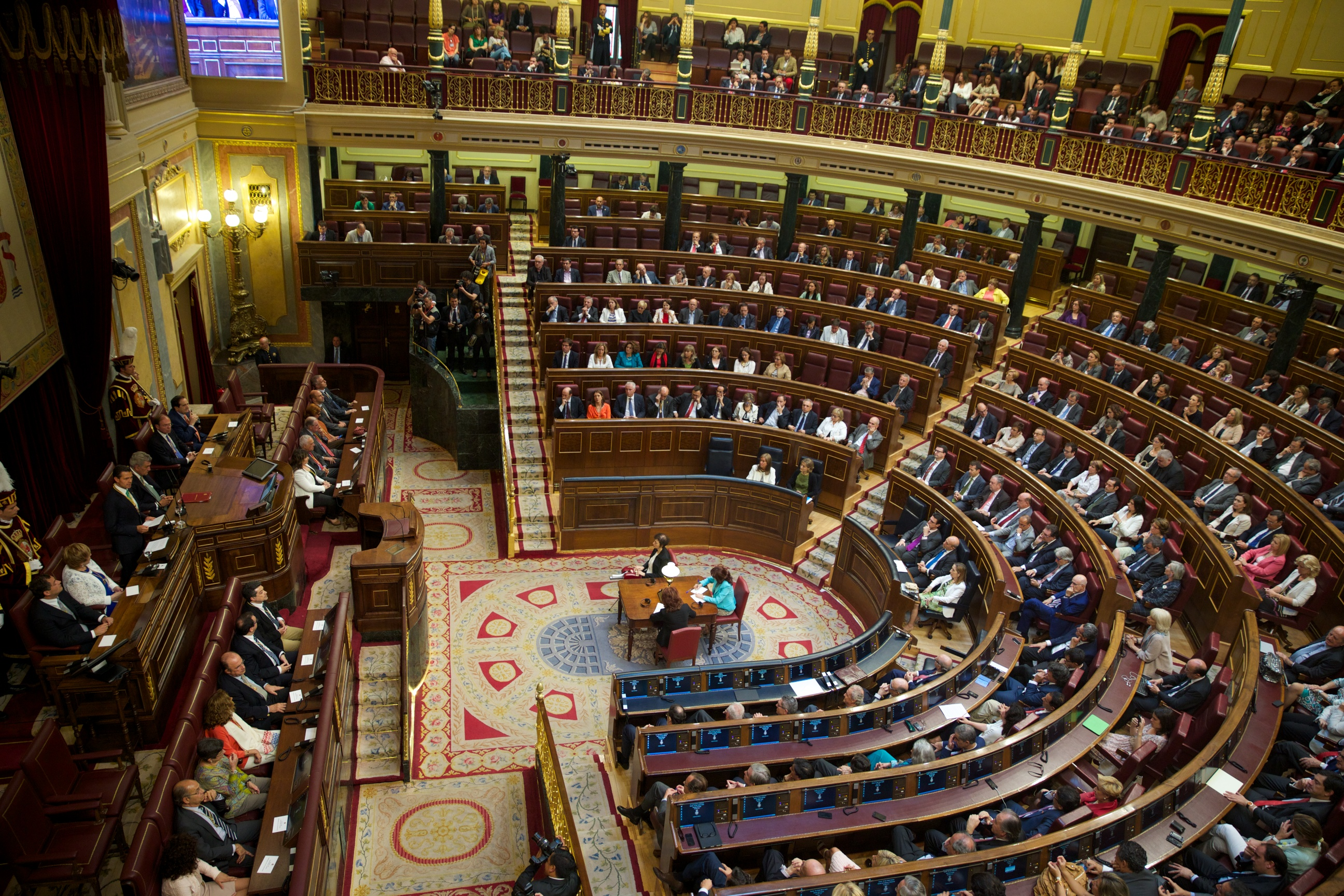 Sesión solemne en el Congreso de los Diputados por la visita de estado del Presidente de los Estados Unidos Mexicanos. Congress of Deputies (Inventory)Native nameCongreso de los Diputados de EspañaParent institutionCortes Generales LocationMadrid, (Spain)Coordinates40° 24′ 57″ N, 3° 41′ 48″ W Established1977Web page control : Q539149 VIAF: 134718539 ISNI: 0000 0001 1956 4410 GND: 1087366097 SUDOC: 03258167X BNF: 121729241 institution QS:P195,Q539149 Palacio de las Cortes (Inventory)Native namePalacio de las Cortes de MadridLocationMadrid, Spain.Coordinates40° 25′ 00″ N, 3° 41′ 59″ W Established1843–1850Web page control : Q9054619 VIAF: 173679168 ULAN: 500302409 LCCN: sh2013000847 GND: 4228303-6 BNE: XX189659 WorldCat institution QS:P195,Q9054619